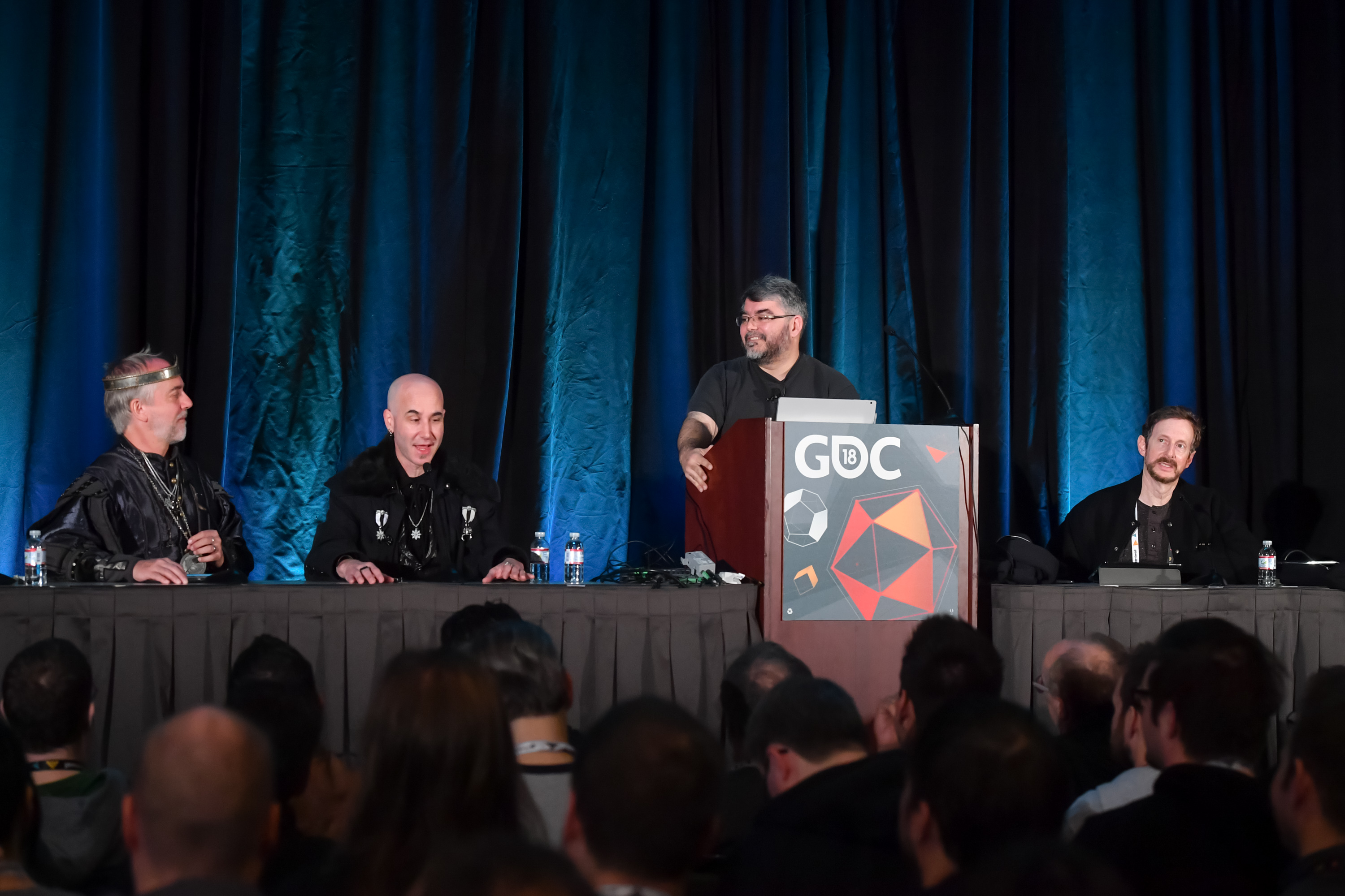 Richard Garriott (left), Starr Long, Raph Koster, and Rich Vogal at the 2018 Game Developers Conference (March 20-23, 2018, SF)